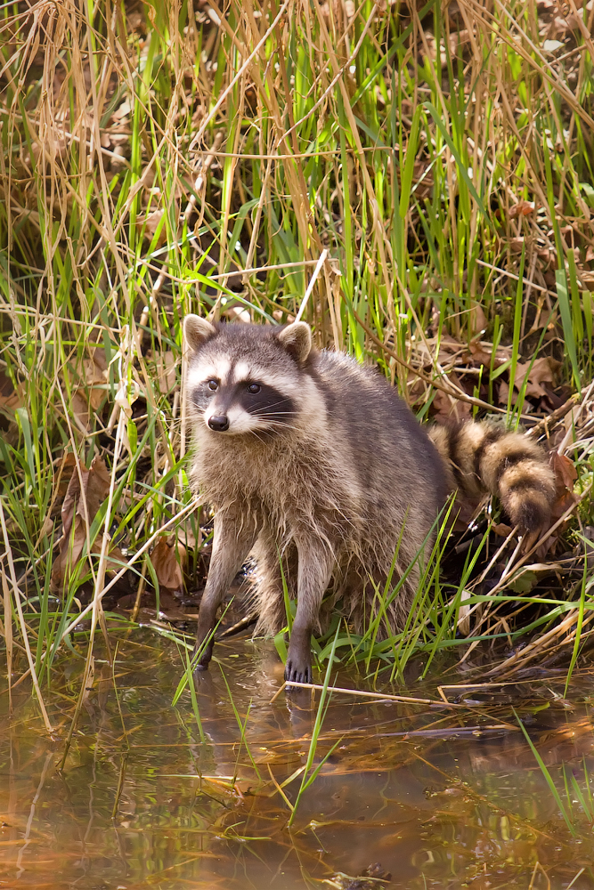 Racoon in Nisqually National Wildlife Refuge